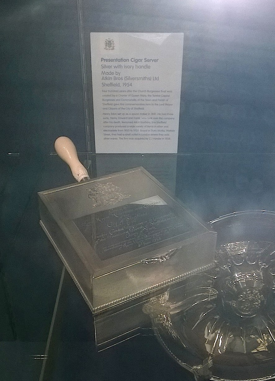 Atkin Brothers (Silversmiths) Ltd. of Sheffield - Silver on display at Sheffield Town Hall